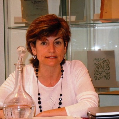 Spanish poet